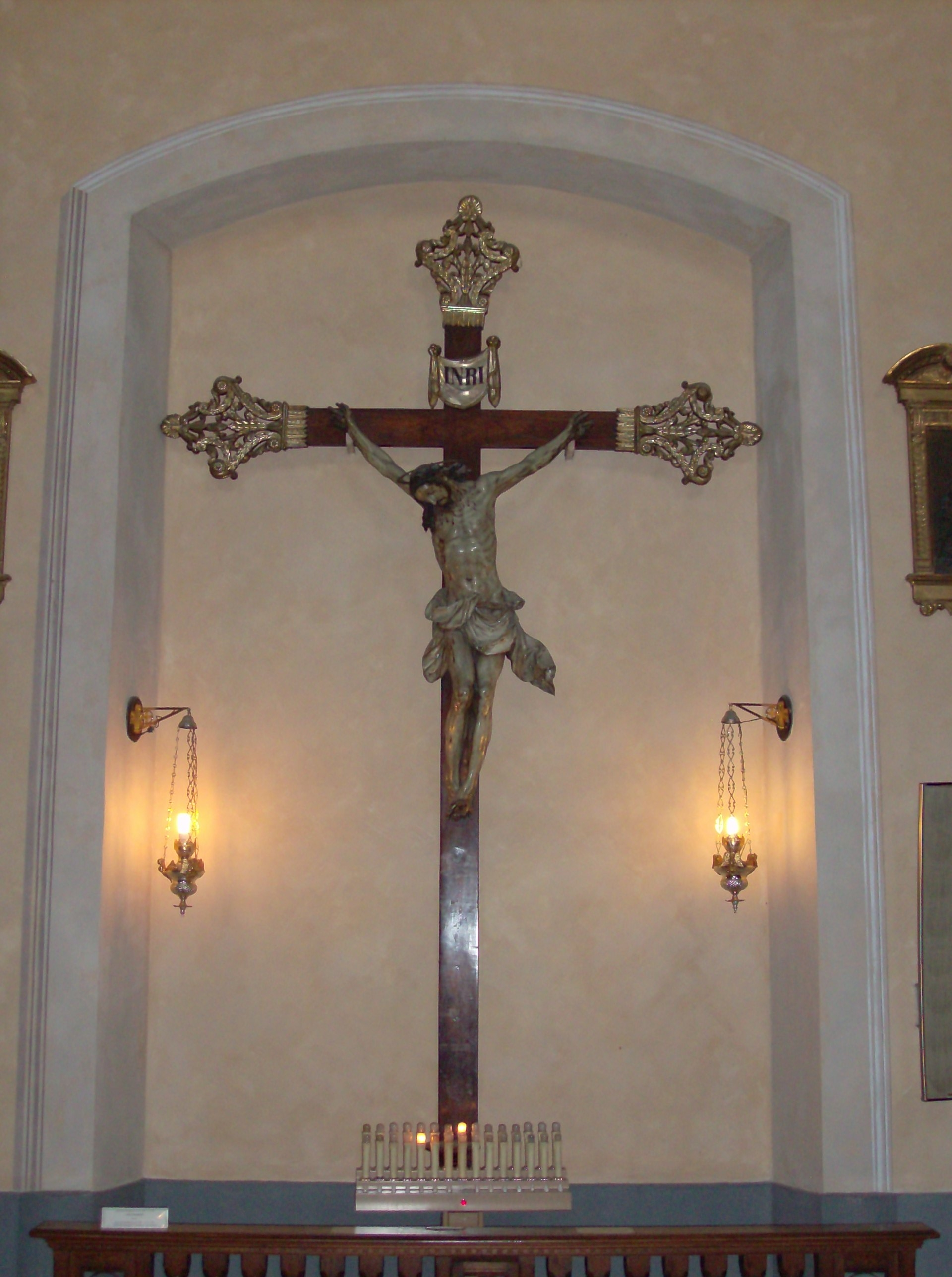 Crucifix by A.M. Maragliano - St. Bartolomeo degli Armeni's church, Genoa